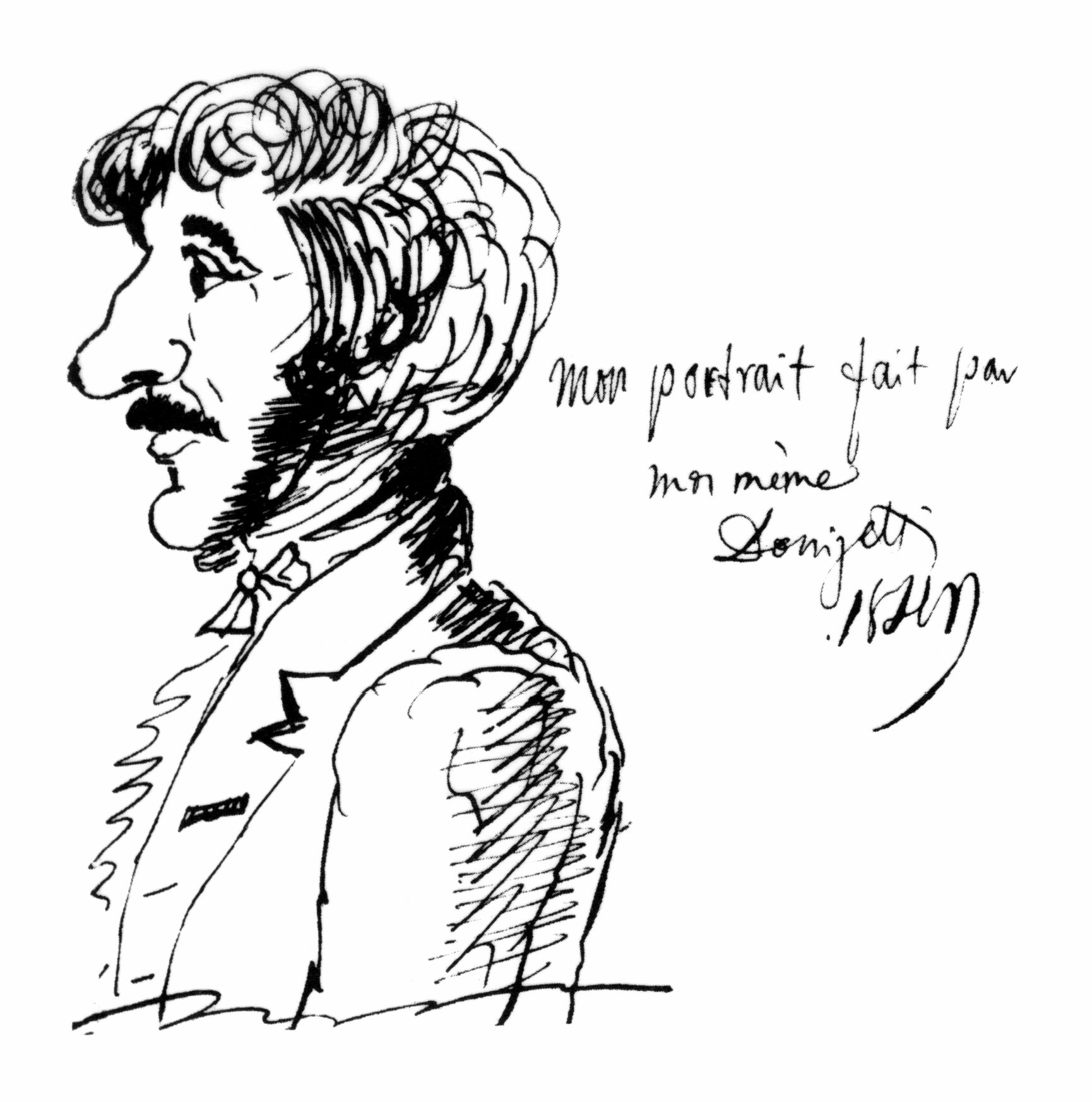 Self caricature - ink on paper - Bergamo (Italy) - private collection